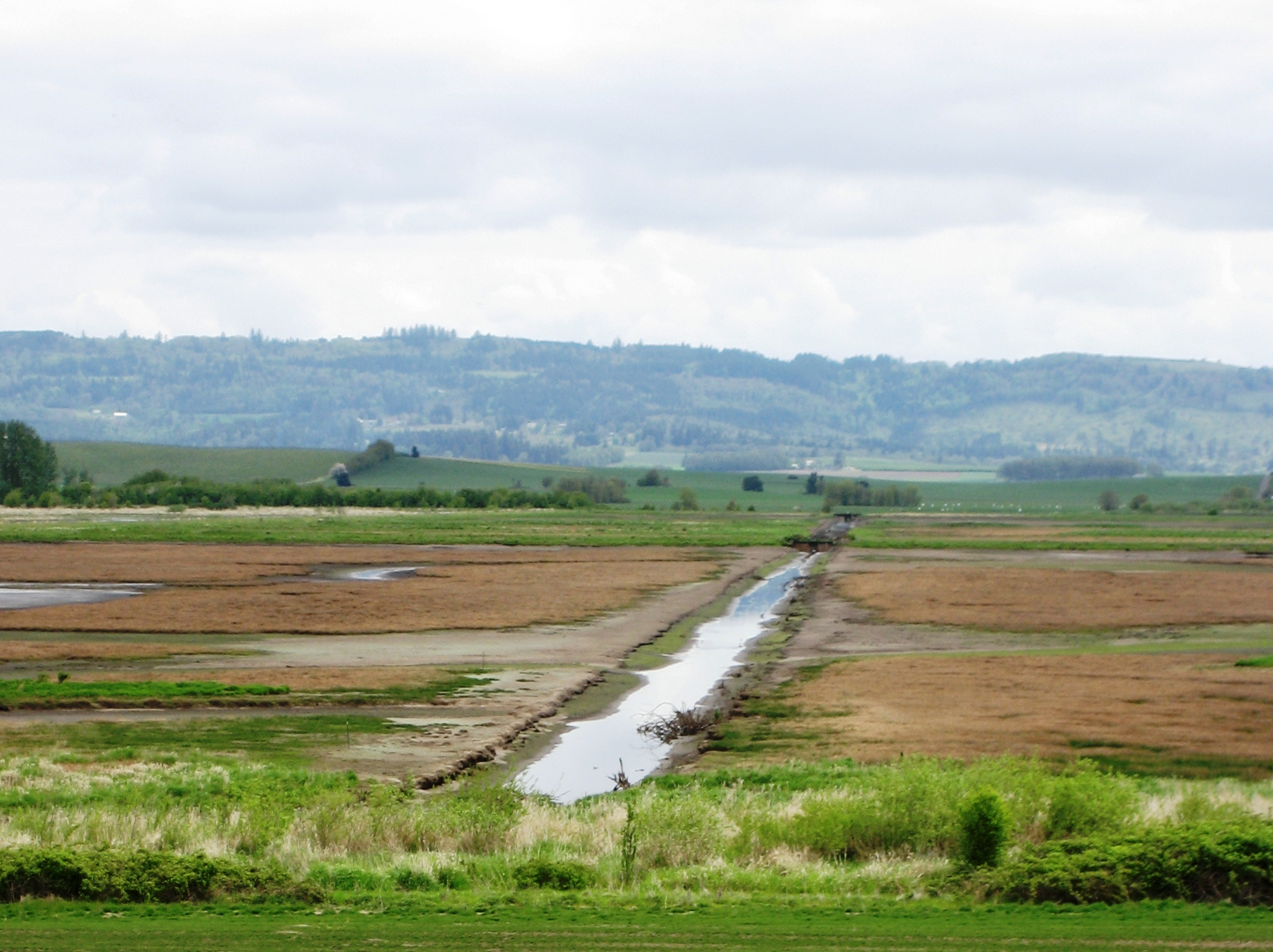 Irrigation ditch or canal at Baskett Slough National Wildlife Refuge